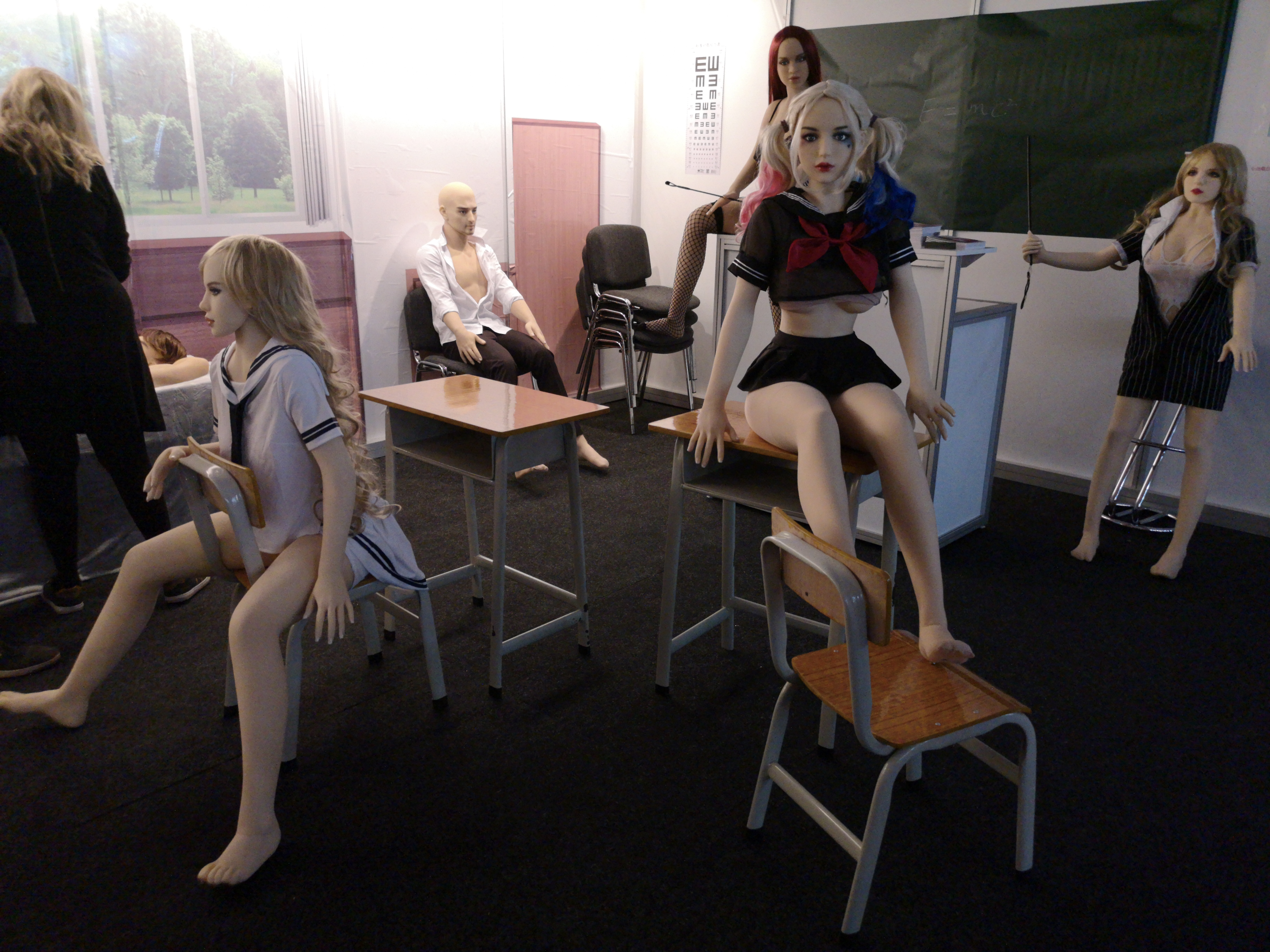 Venus Berlin 2019